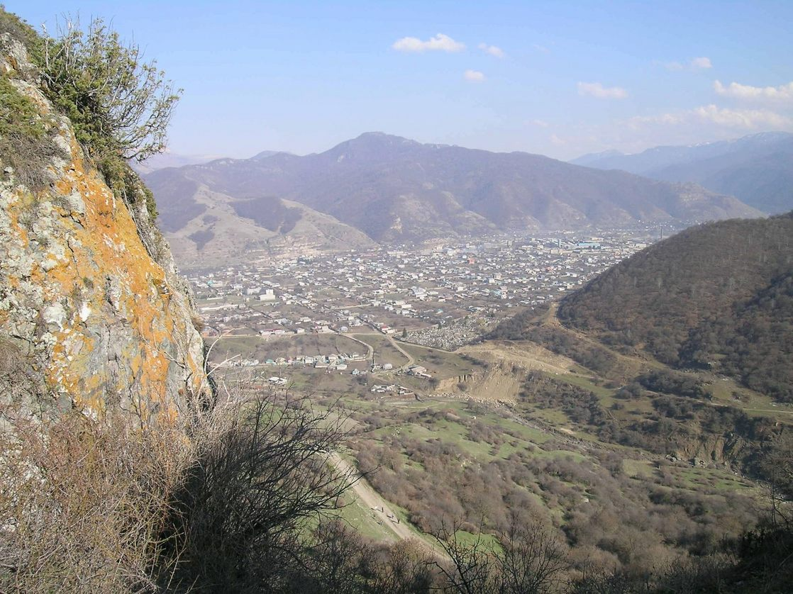 view of the town of Karachayevsk, Karachay-Cherkessia, Russia